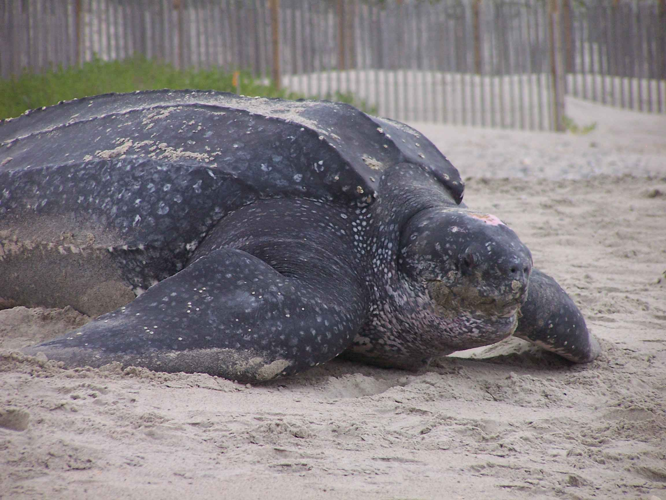 Image title: Dermochelys coriacea leatherback turtle Image from Public domain images website